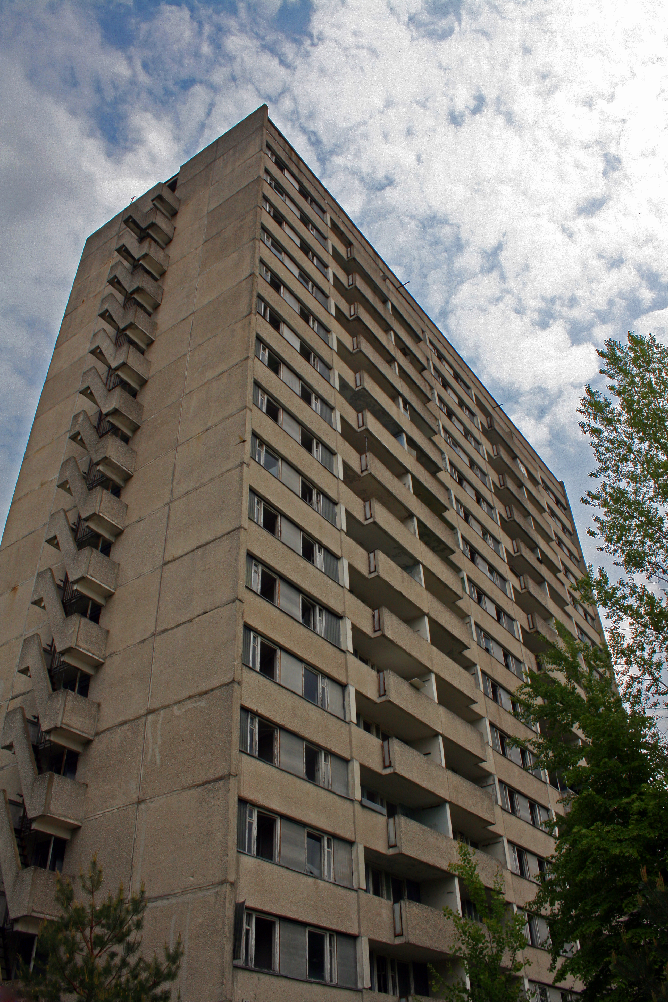 16 storey apartment building in Pripyat